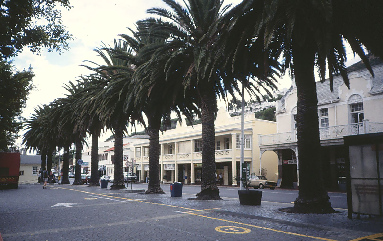 Saint Georges Street, the main street in Simon's Town, South Africa. February 20, 1997.